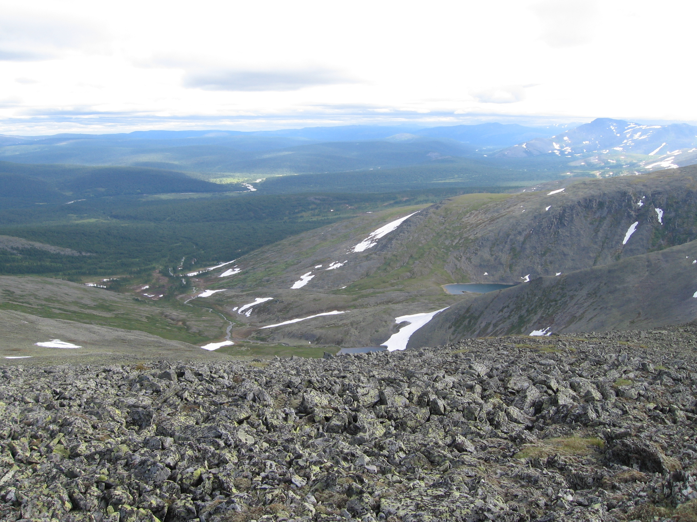 Landscape view in Circumpolar Urals